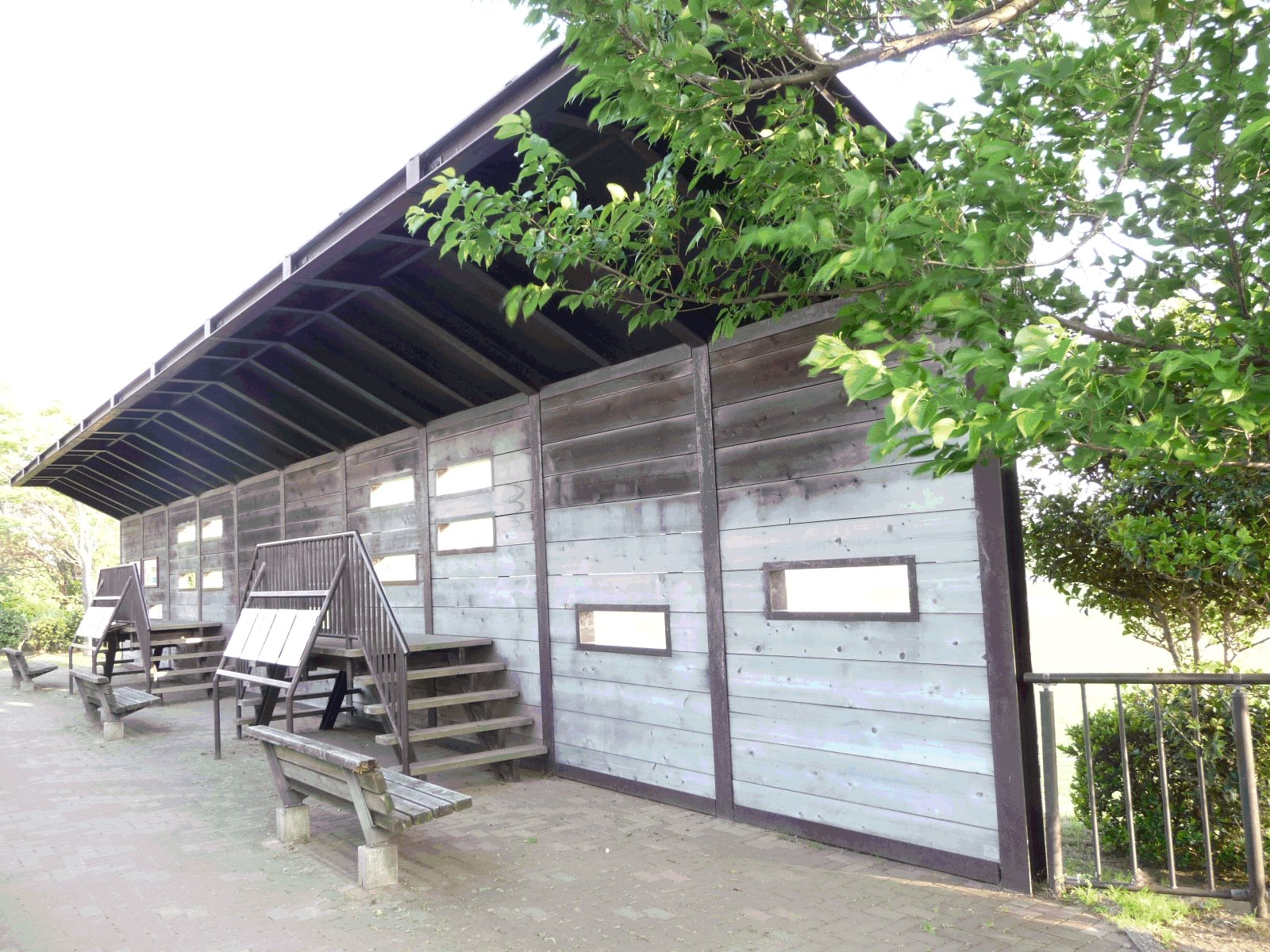 Birdwatching bird hide blind, Yatsu mudflat (Yatsu higata), Narashino Chiba Japan.